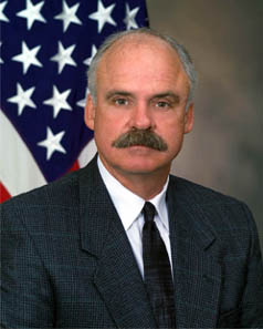 A native of Mississippi, Parker was elected to represent the Fourth Congressional District of Mississippi in the U.S. House of Representatives in 1989. While serving the House from 1989 to 1999, Parker served on the Budget, Appropriations, Transportation, Education and Workforce, and Veterans Affairs committees. While on the Appropriations Committee, Parker sat on the Energy and Water Development, and the Military Construction subcommittees. Parker calls Brookhaven, Mississippi, home, and maintains a residence in Alexandria, Virginia. He and his wife Rosemary have been married for 31 years. They have three children -- Adrian, a professional golfer; Marisa, a junior at Millsaps College; and Thomas, a junior in high school.